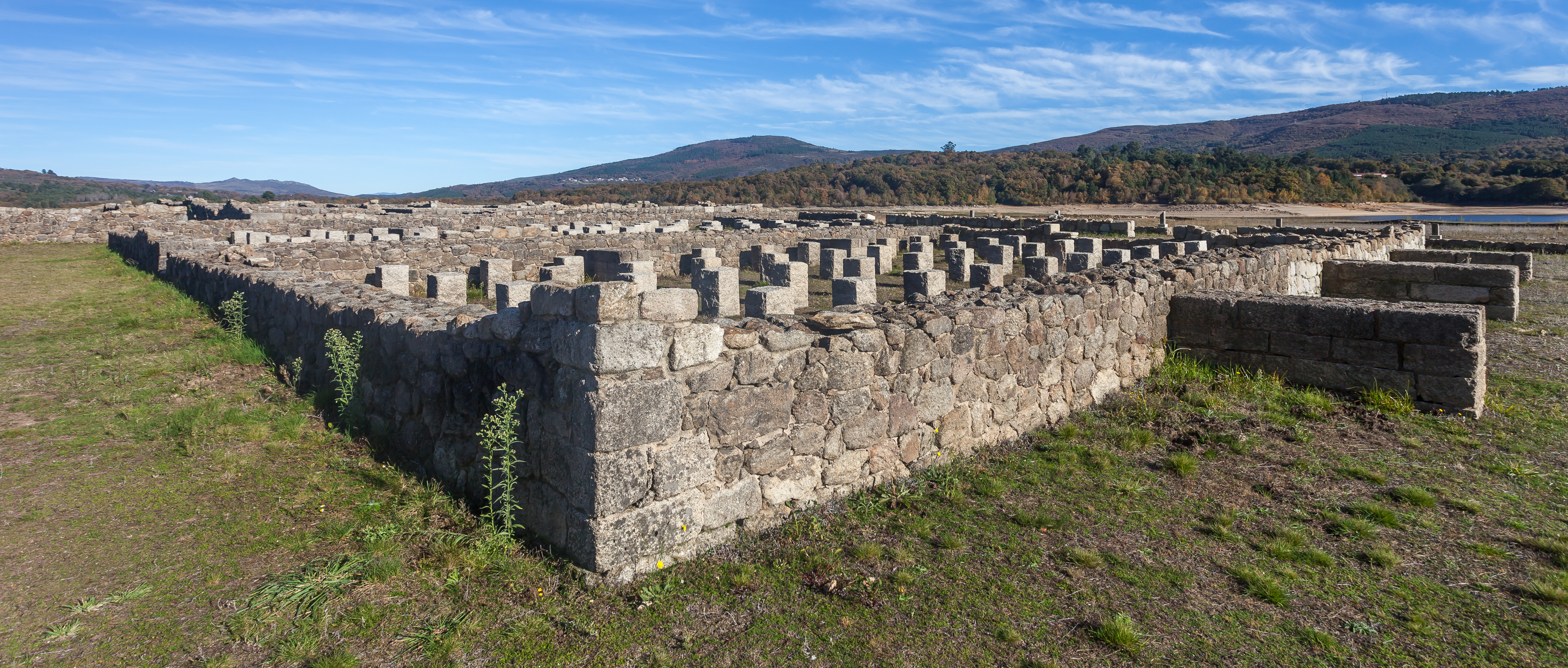 The roman castra Aquis Querquennis, in Bande, Ourense, Galicia.